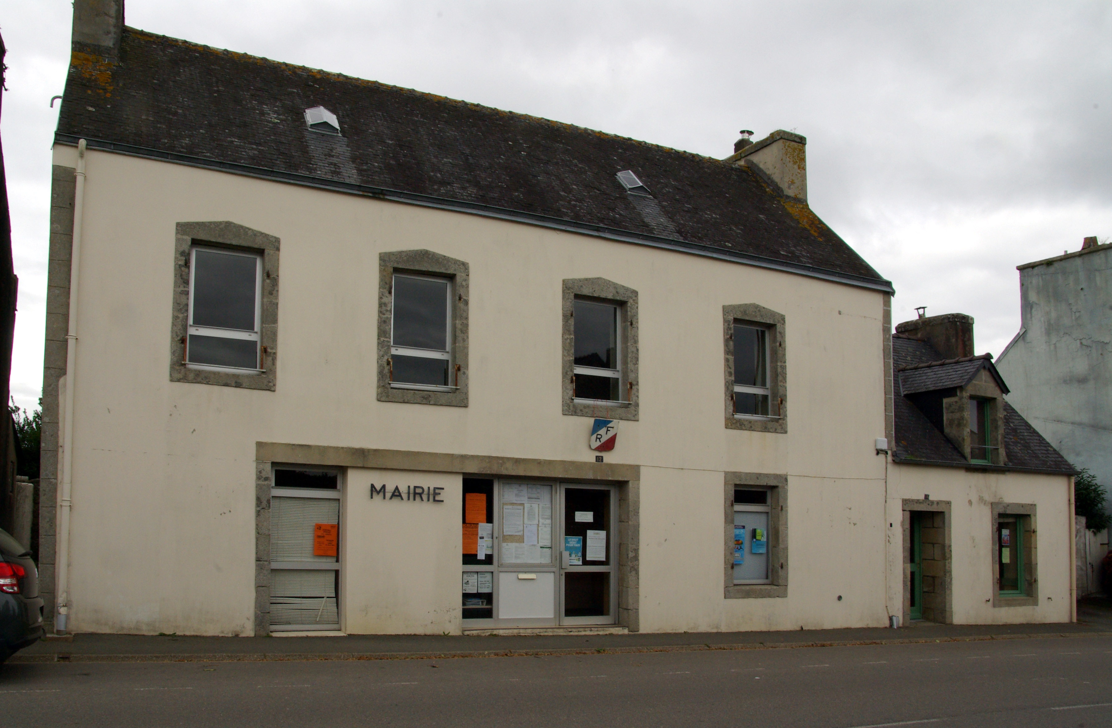 Gourlizon, the City Hall